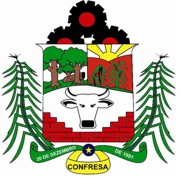 Logotipo do município de Confresa MT